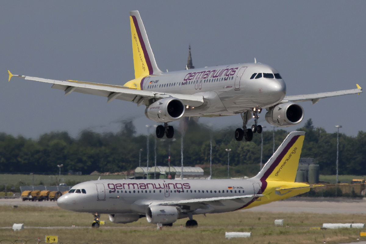 Two Airbus A319 of Germanwings at Stuttgart Airport (STR)